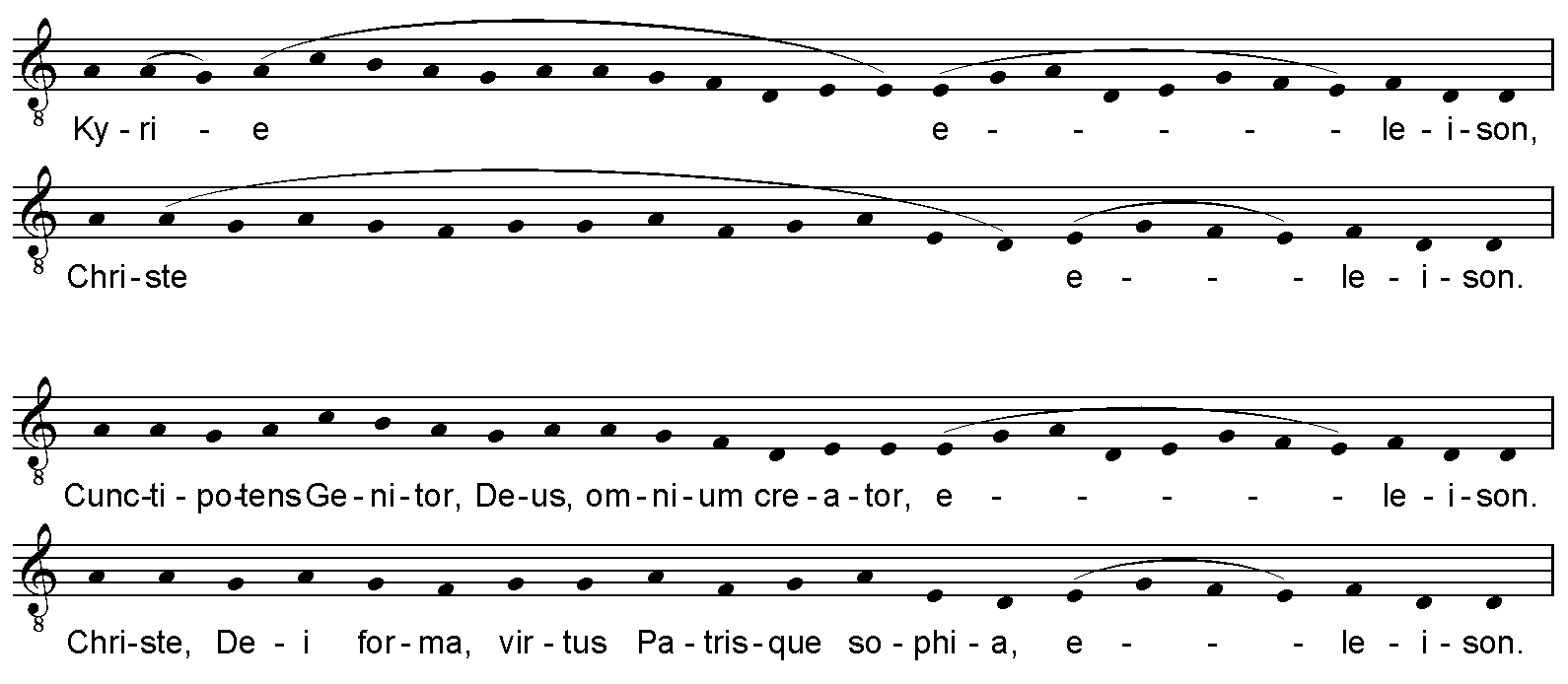 Original Kyrie of the Mass for Pentecost and its trope "Cunctipotens genitor"